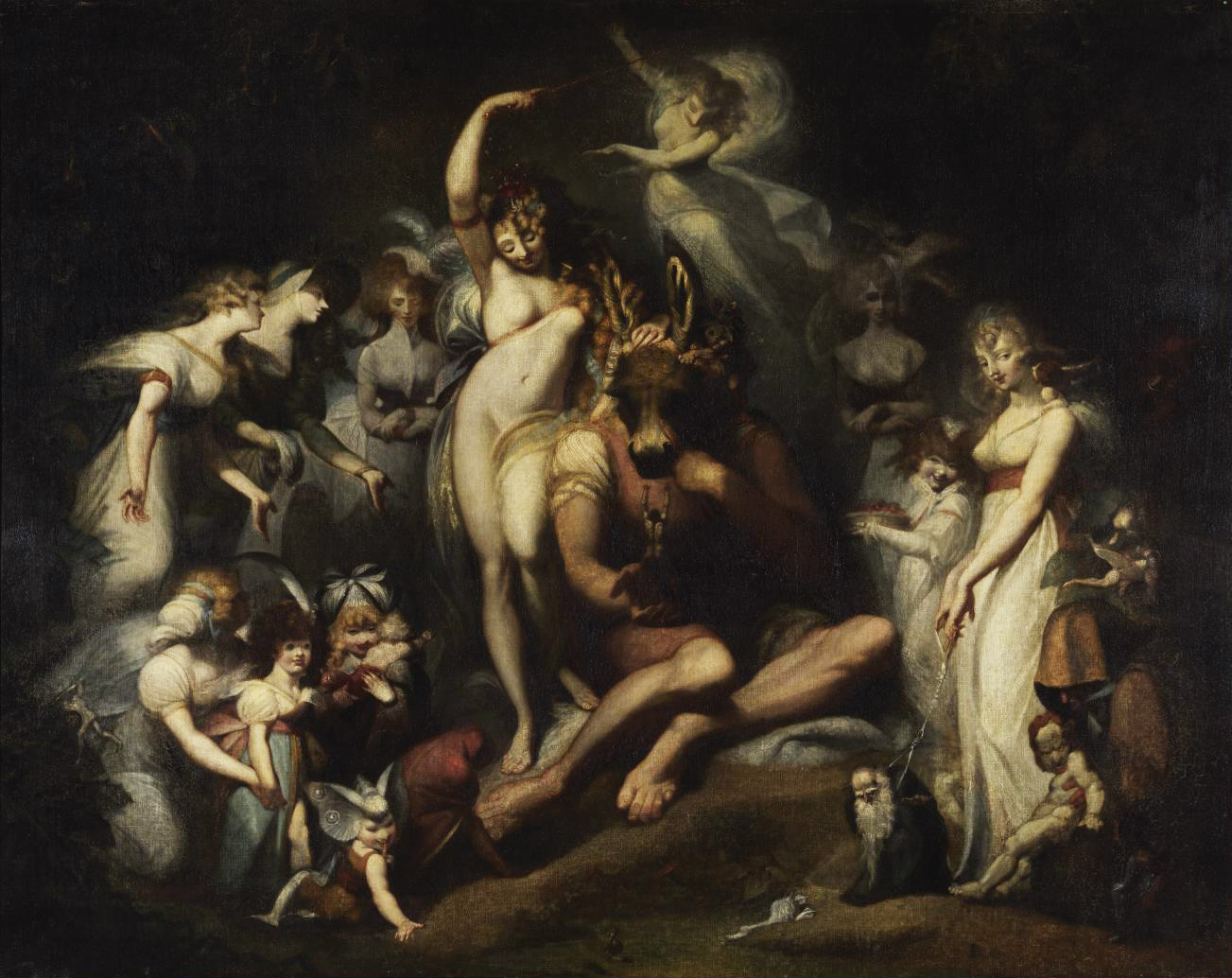 Titania and Bottom, oil on canvas by Henry Fuseli. Image retrieved from the Tate Collection online (